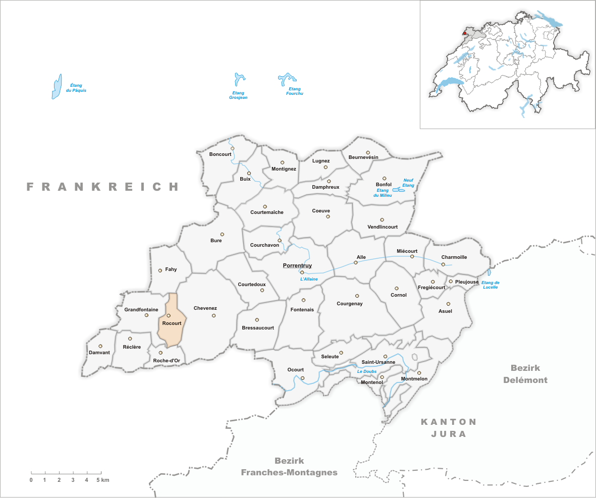 Municipality Rocourt